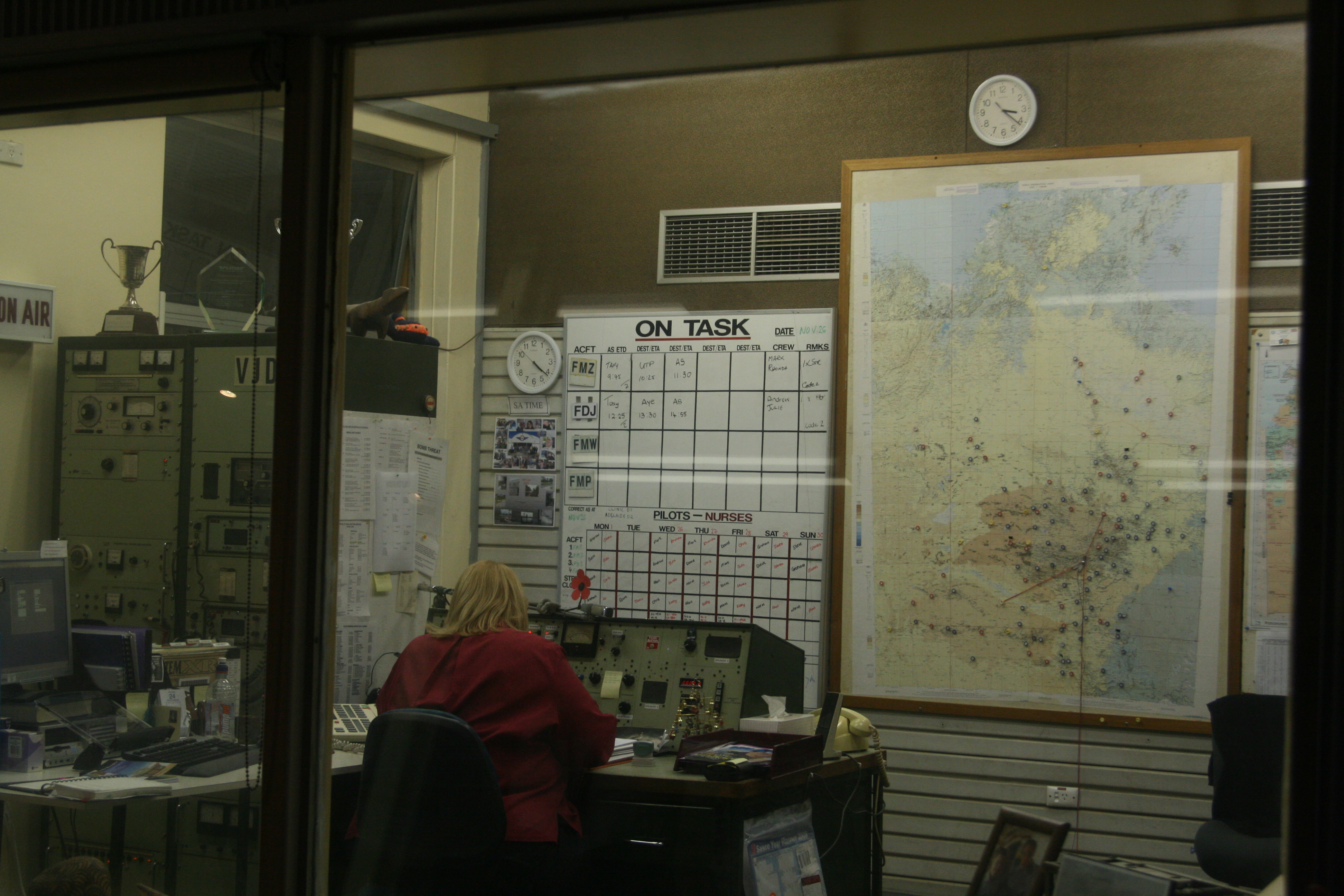 Royal Flying Doctor dispatch service, Alice Springs, Australia. Stadium bench seating is provided for a coach load of observers in this communications center.